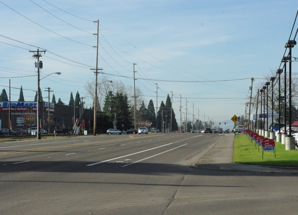 Tualatin Valley Highway (Oregon Route 8) looking west in Beaverton, Oregon, USA